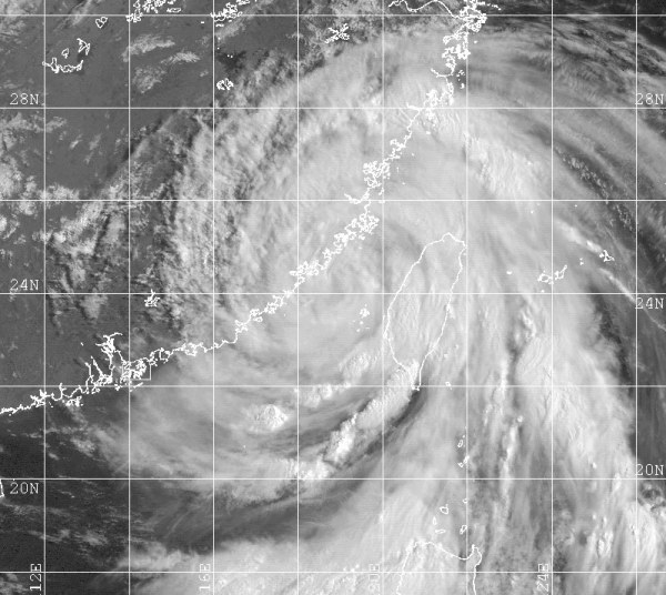 Typhoon Bilis at 22 August 2000 2331 (UTC)